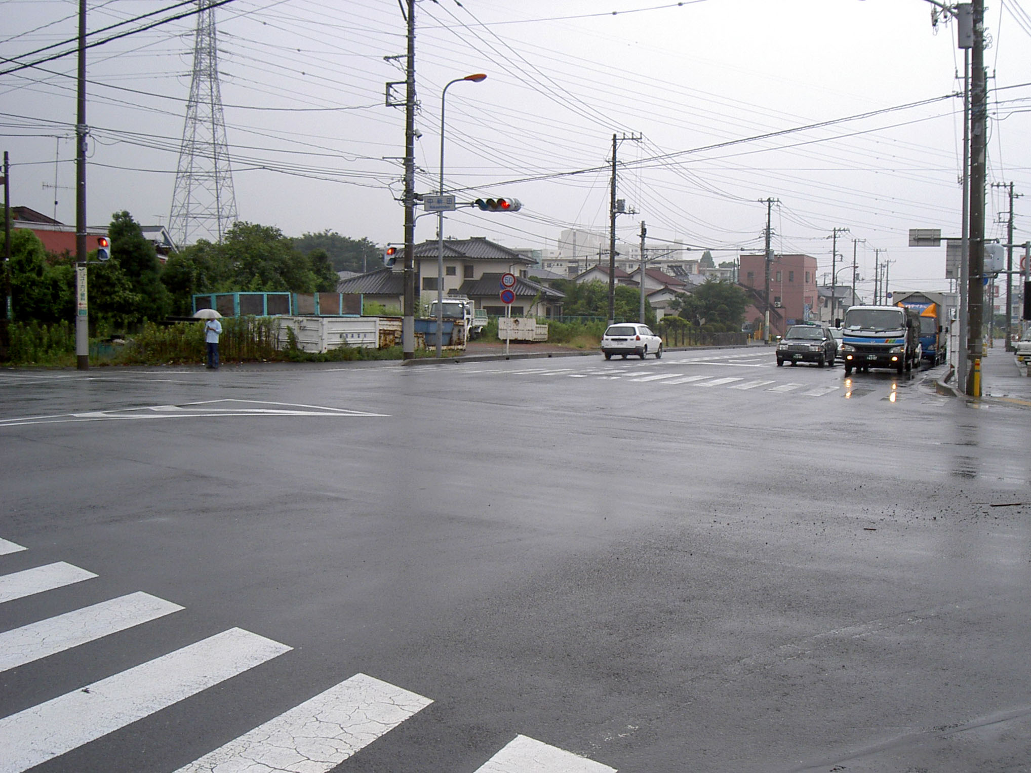 The junctuon of Kanagawa prefectural road route 43 and route 46 ja: 神奈川県道43号藤沢厚木線と神奈川県道46号相模原茅ヶ崎線の分岐点